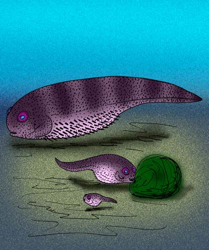 Juveniles of the mysterious Carboniferous chimaera, Delphyodontos dacriformes (C) Stanton F. Fink